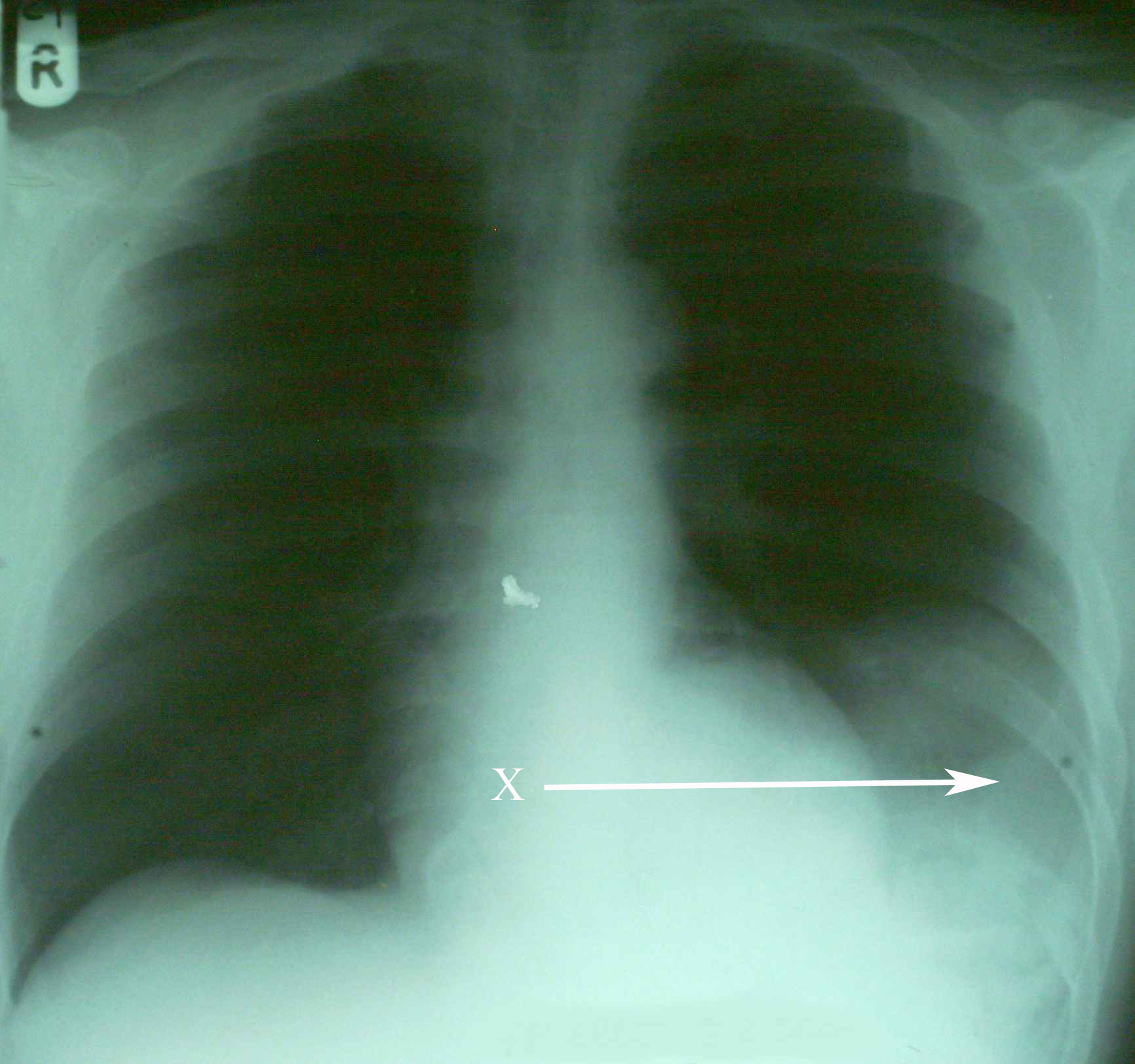 An X-ray showing the spleen in the left lower portion of the chest cavity (X and arrow) after a diaphragmatic tear. caption reads, "A radiograph of the chest demonstrating an opacity in the left lower zone (X)."